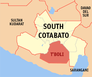 Map of the South Cotabato showing the location of T'boli